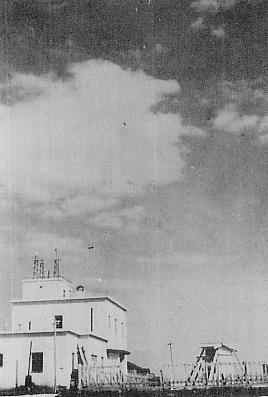 Paramushiru Weather Station in Paramushiru (called "Paramushir" by the Russians) Island